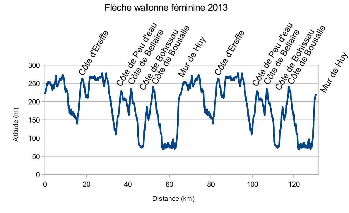 Profile of the Flèche wallonne féminine 2013.